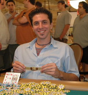 Rafi Amit shows his WSOP Bracelet after he won it in the 2005 World Series of Poker. (Cropped from the original)